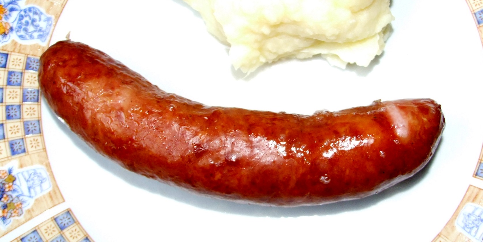 Montbeliard sausage